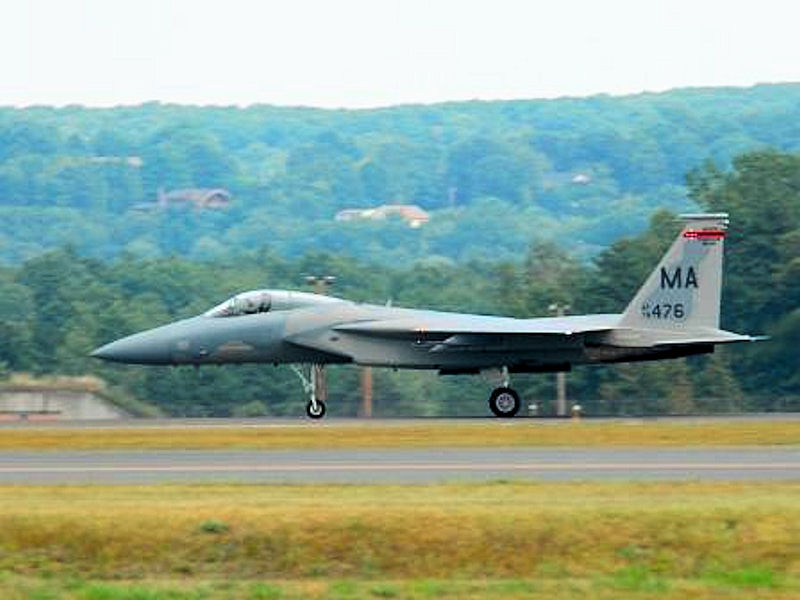 131st Fighter Squadron - McDonnell Douglas F-15C-21-MC Eagle 78-0476